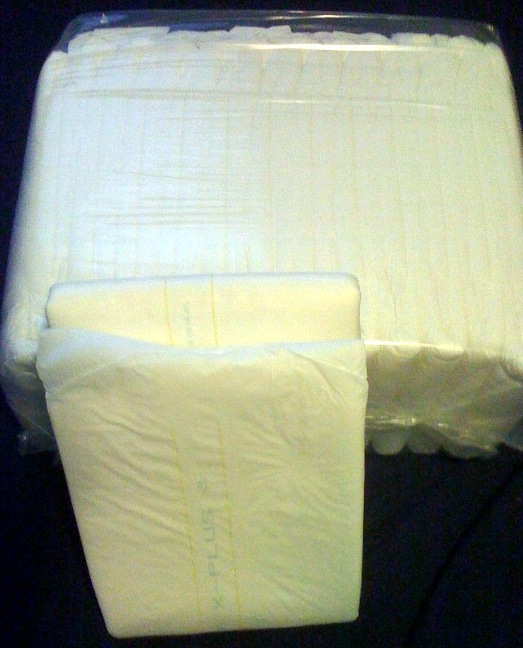 An unopened bag, and one single Abena X-Plus adult diaper.Taken with my iPhone